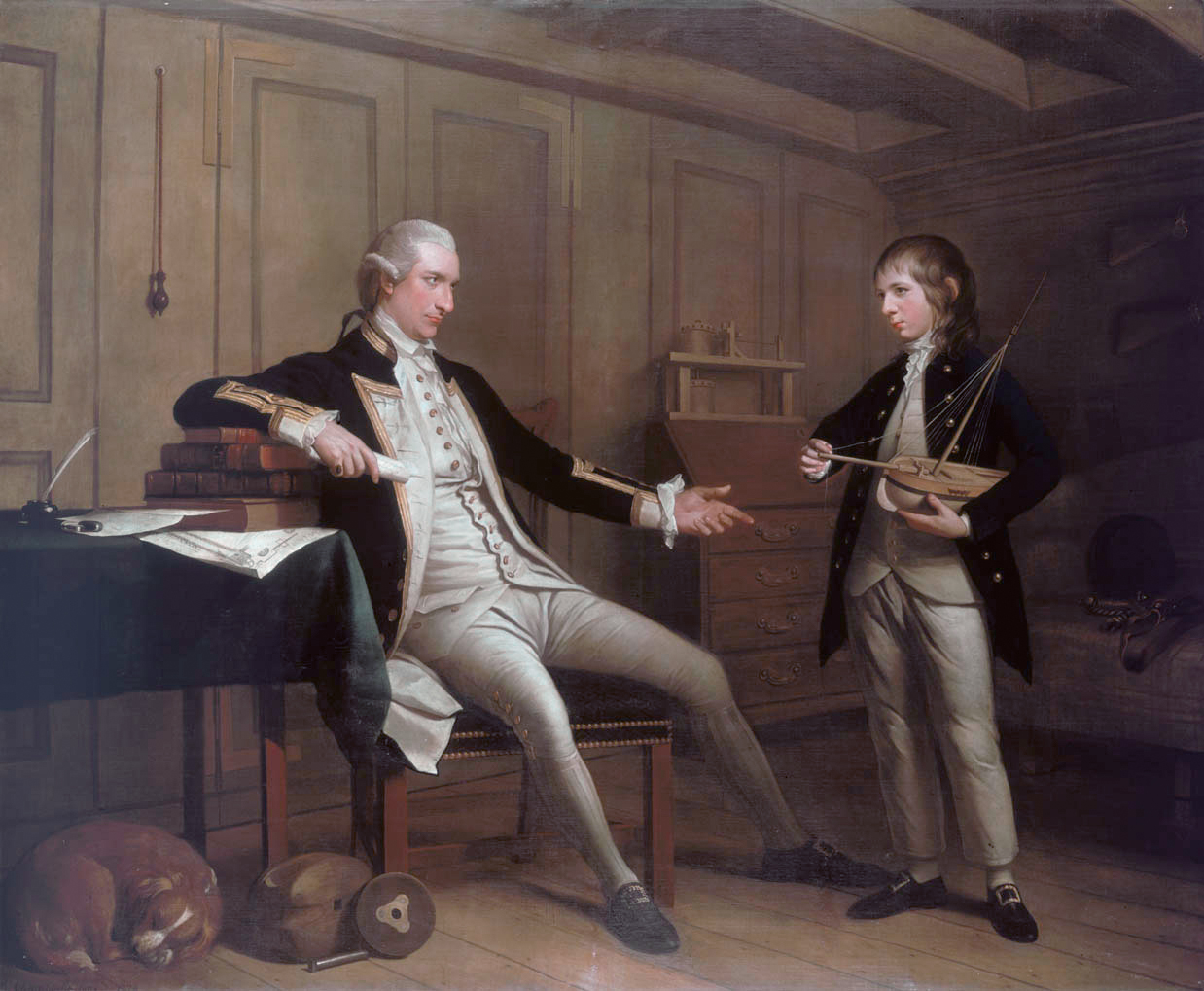 Captain John Bentinck (1737-1775) and his son, William Bentinck (1764-1813) oil on canvas 197 x 242.5 cm